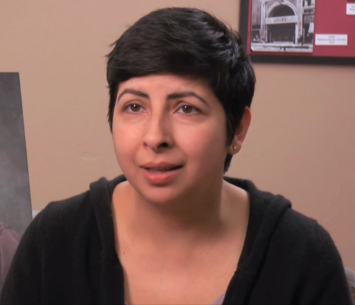 American playwright Aditi Brennan Kapil speaks about Love Person, a play performed in American Sign Language.